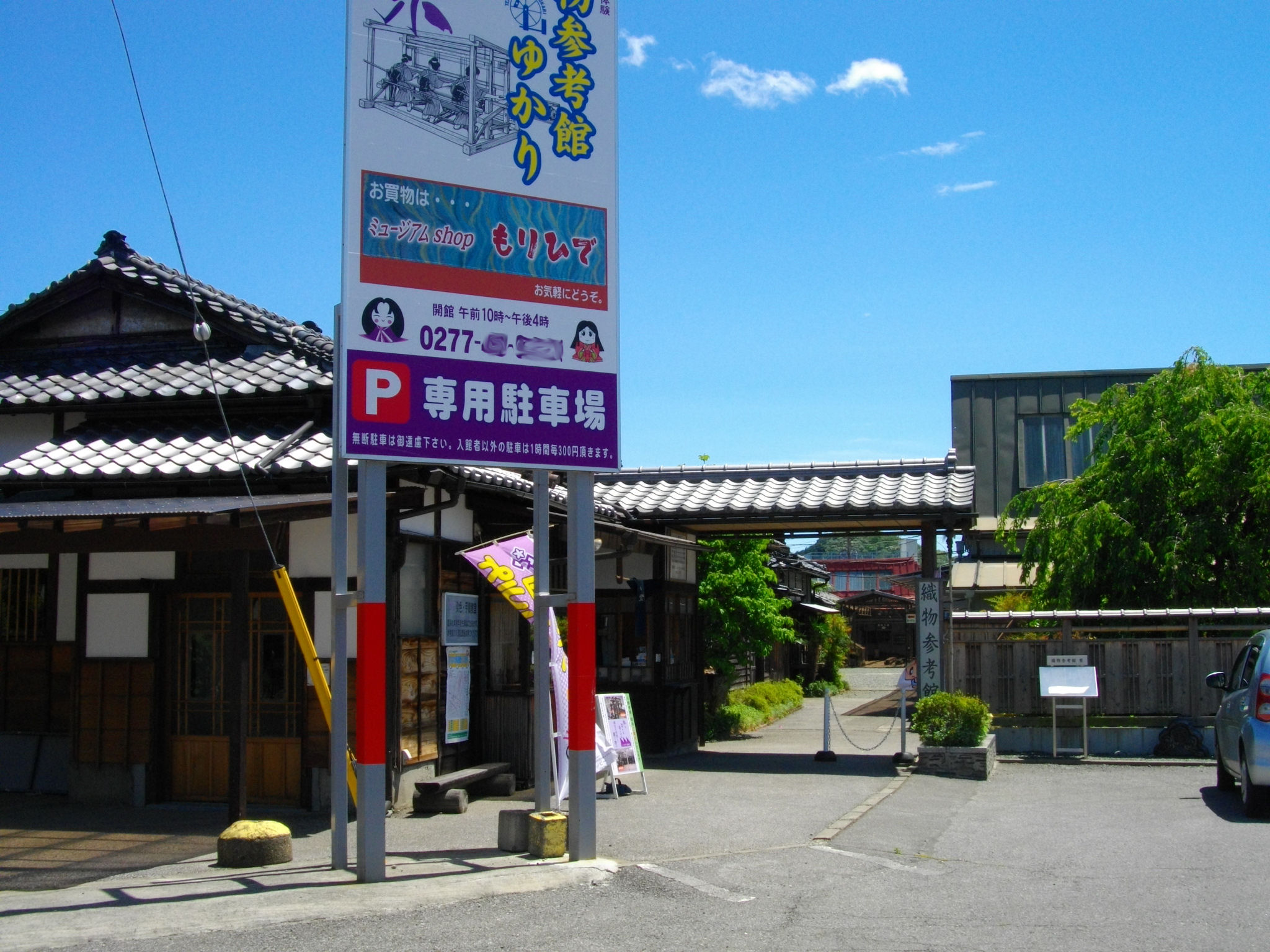 Textile Museum YUKARI